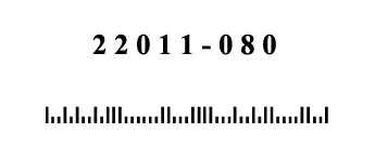 Postal Service - Zip Code 22011-080 - Barcode - Real Size - PU1JFC ™ ©